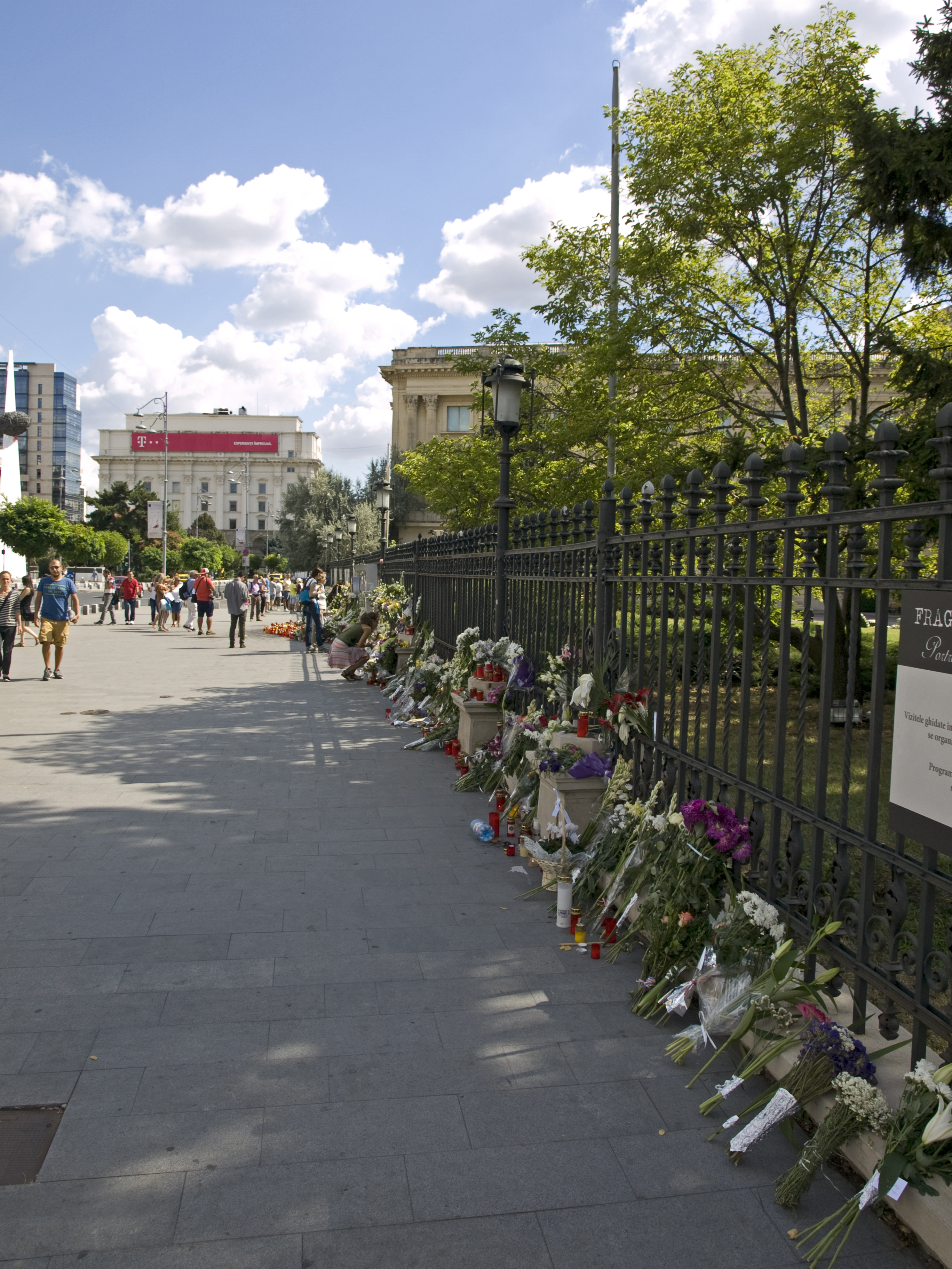 Flowers and candles in front of the fence of the former Royal Palace in Bucharest, on 13 August 2016, a day of national mourning on the occasion of Queen Anne's funerals